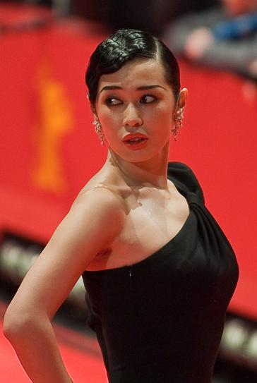 Chinese actress Yu Nan, member of the jury, arriving at the opening of the 60th Berlin International Film Festival.